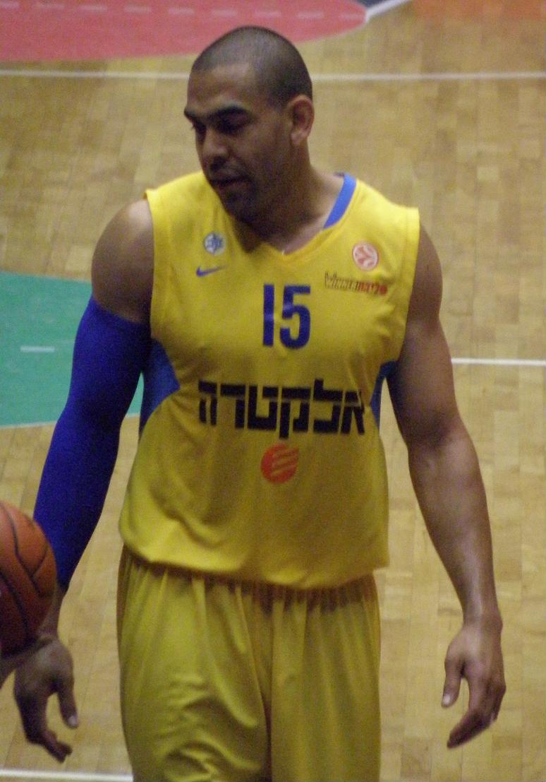 American-Israeli basketball player playing for maccabi Tel Aviv (2010)